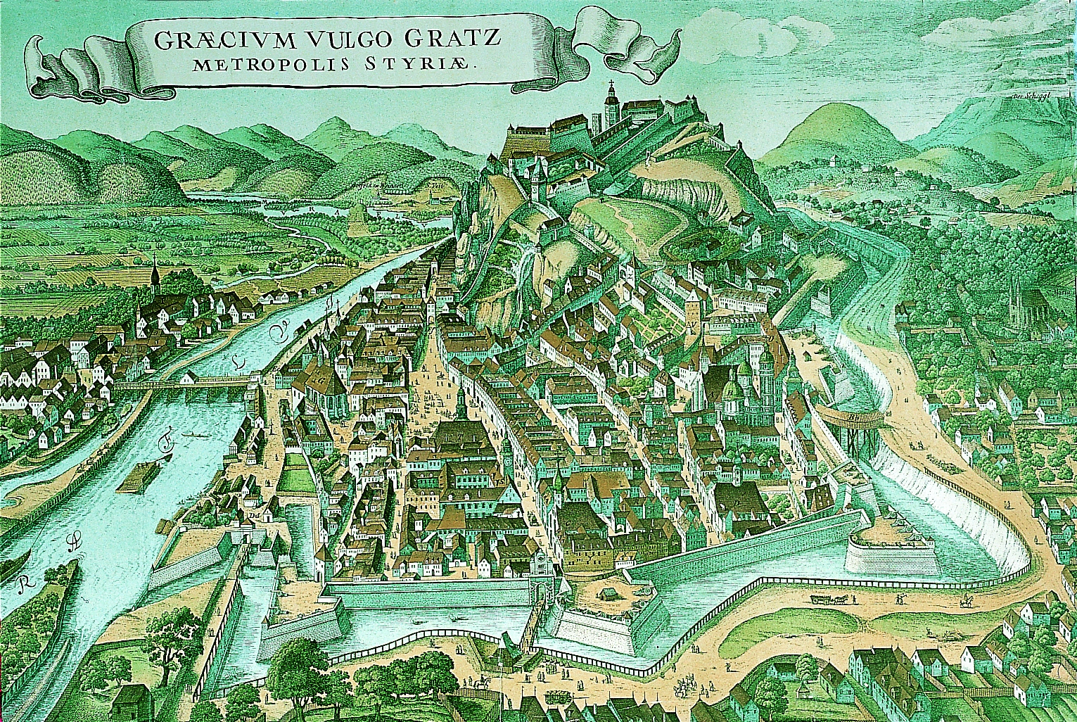 View at Graz from the south; Copper engraving around 1626/1657, Laurenz van de Sype/Wenzel Hollar